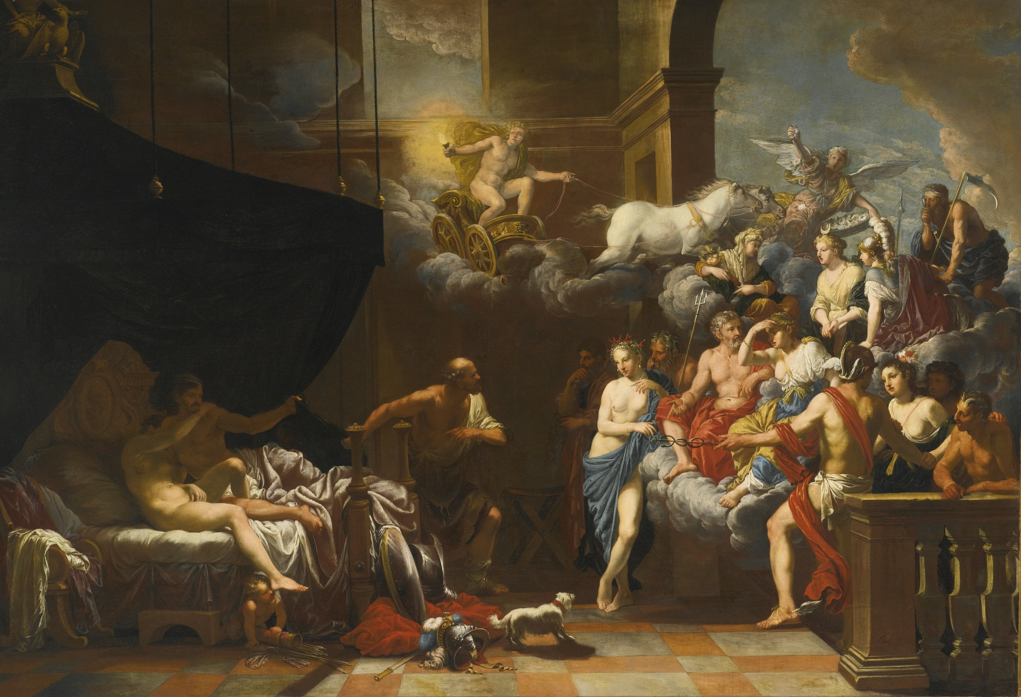 JOHANN HEISS, MEMMINGEN 1640 - 1704 AUGSBURG, VULCAN SURPRISING VENUS AND MARS IN BED BEFORE AN ASSEMBLY OF THE GODS, signed and dated lower right on balustrade: JHeiss 1679, oil on canvas, 134.9 by 196.9 cm.